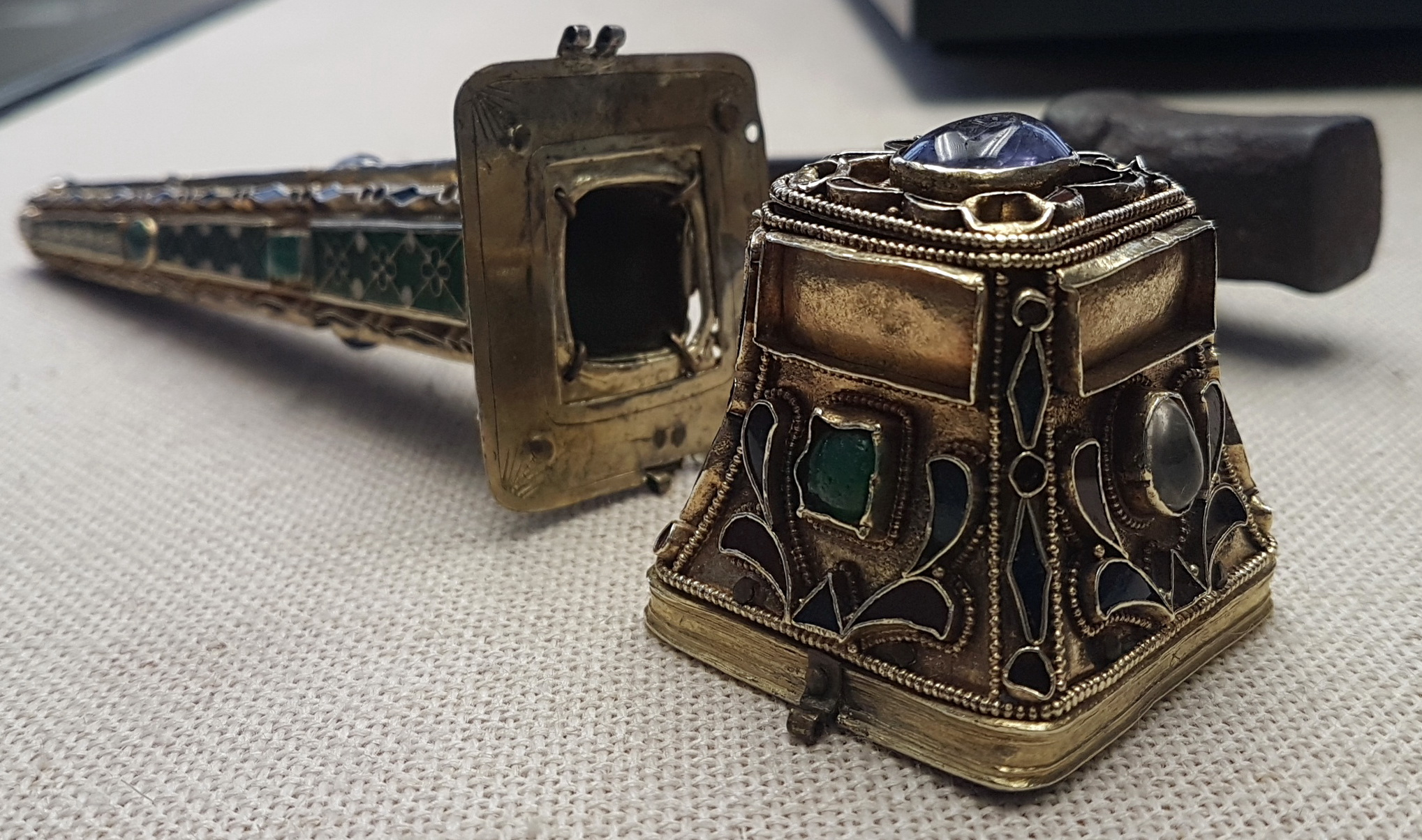 Reliquary of the Holy Nail (Reliquiar des heiligen Nagels) in the treasury of Trier Cathedral, Germany. The reliquary contains a nail of the Holy Cross. For centuries it was kept in the so-called portable altar of Saint Andrew (Andreas-Tragaltar or Egbert-Schrein). Both objects are major works of the 10th-century Egbert workshop in Trier.